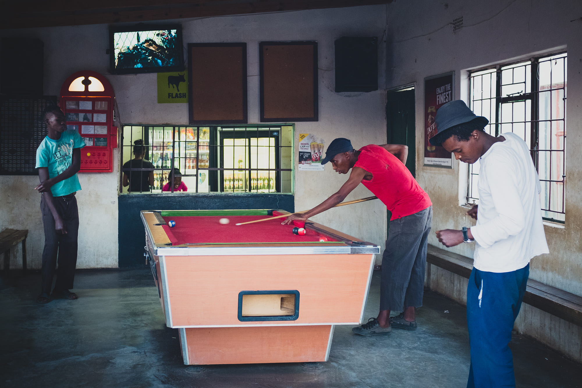 Men play pool in a bar in Blouberg, Limpopo.